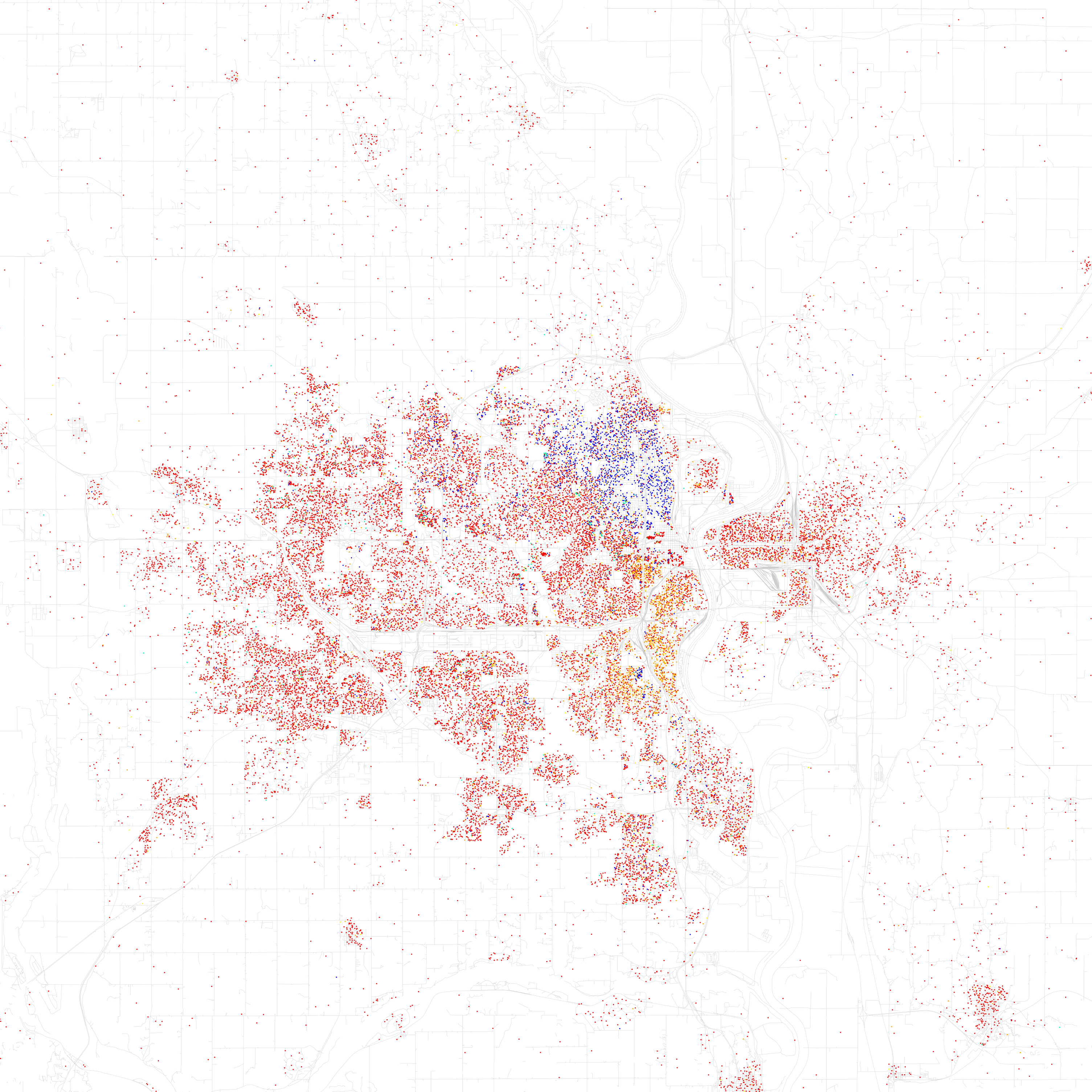 Maps of racial and ethnic divisions in US cities, inspired by Bill Rankin's map of Chicago, updated for Census 2010. Red is White, Blue is Black, Green is Asian, Orange is Hispanic, Yellow is Other, and each dot is 25 residents. Data from Census 2010. Base map © OpenStreetMap, CC-BY-SA